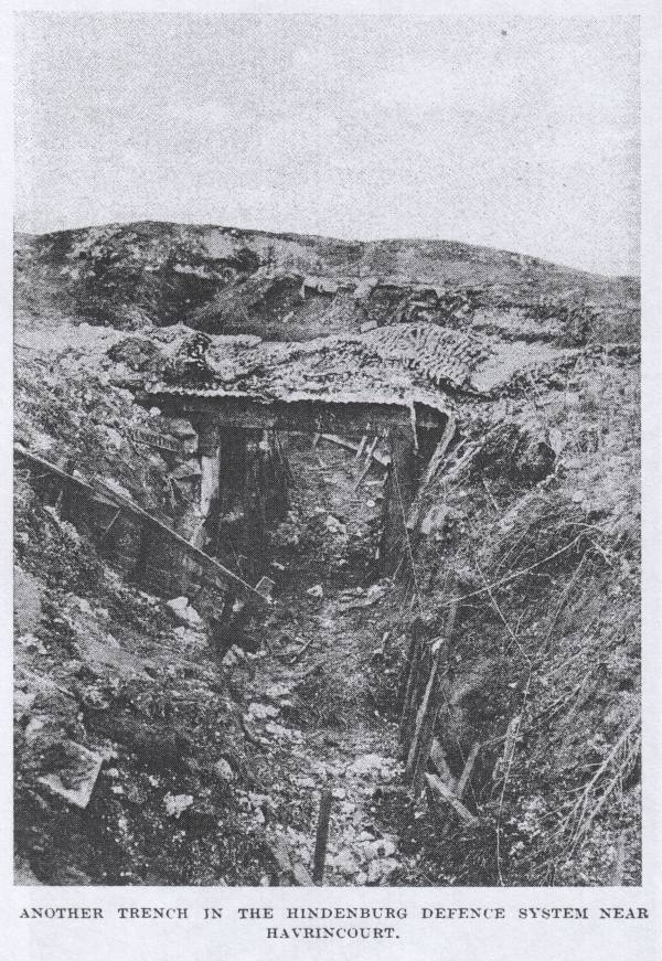 Photograph of a trench in the Hindenburg Line near Havrincourt, captured by the 42nd Division September 1918.